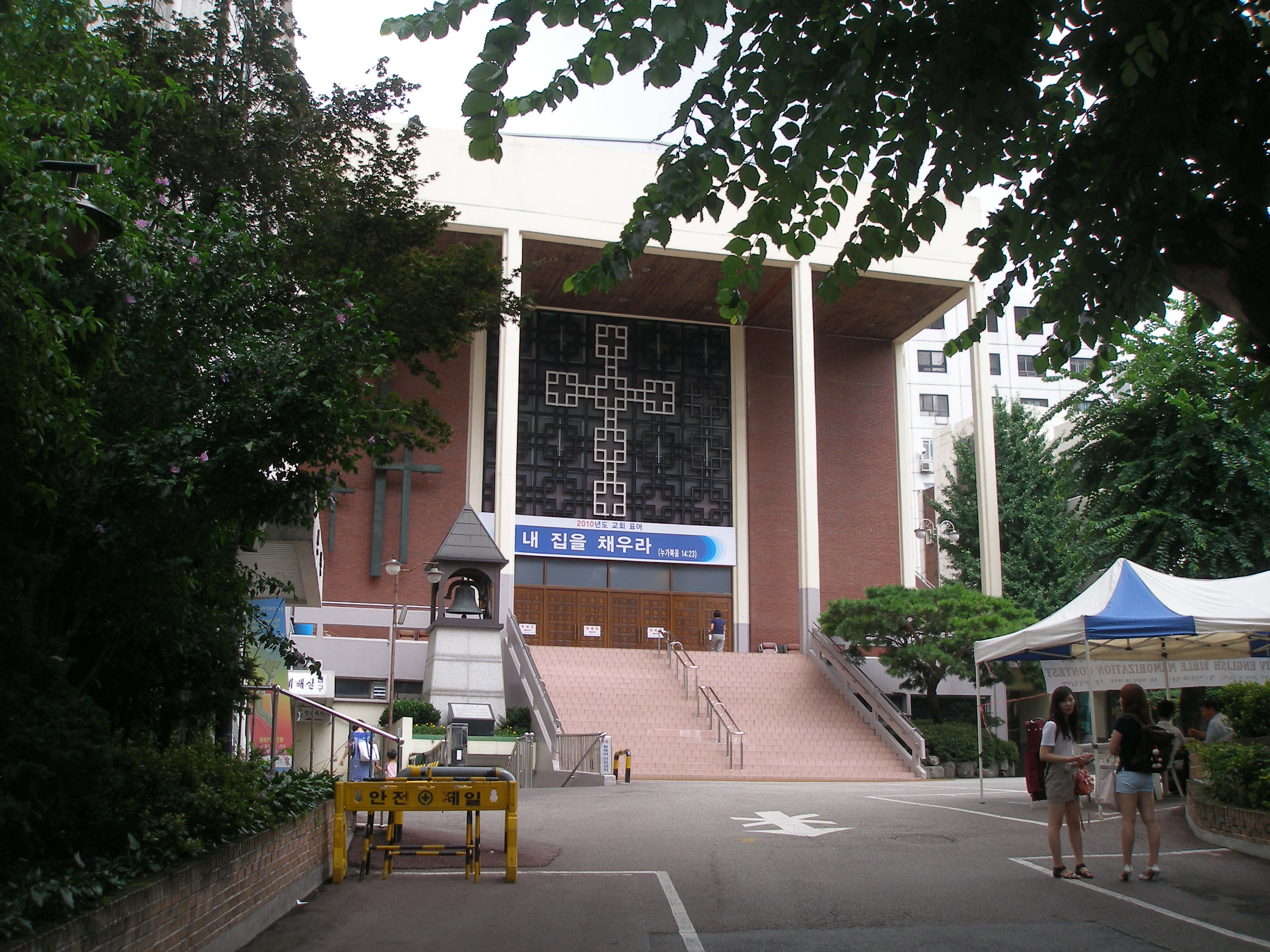 main building of Saemoonan church, first Korean church in Seoul